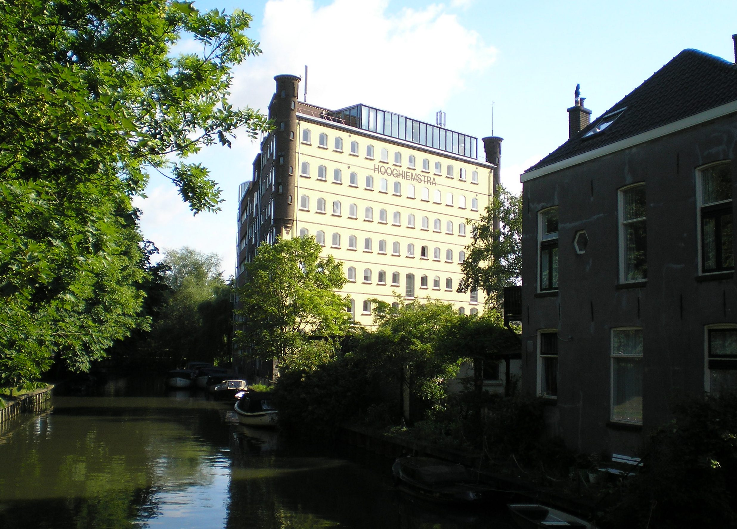 Hooghiemstra along Biltsche Grift of Utrecht in the Netherlands